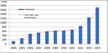 10 year Asset Growth Chart